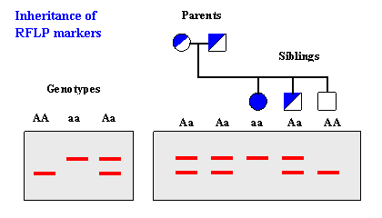 Inheritance of RFLP alleles.